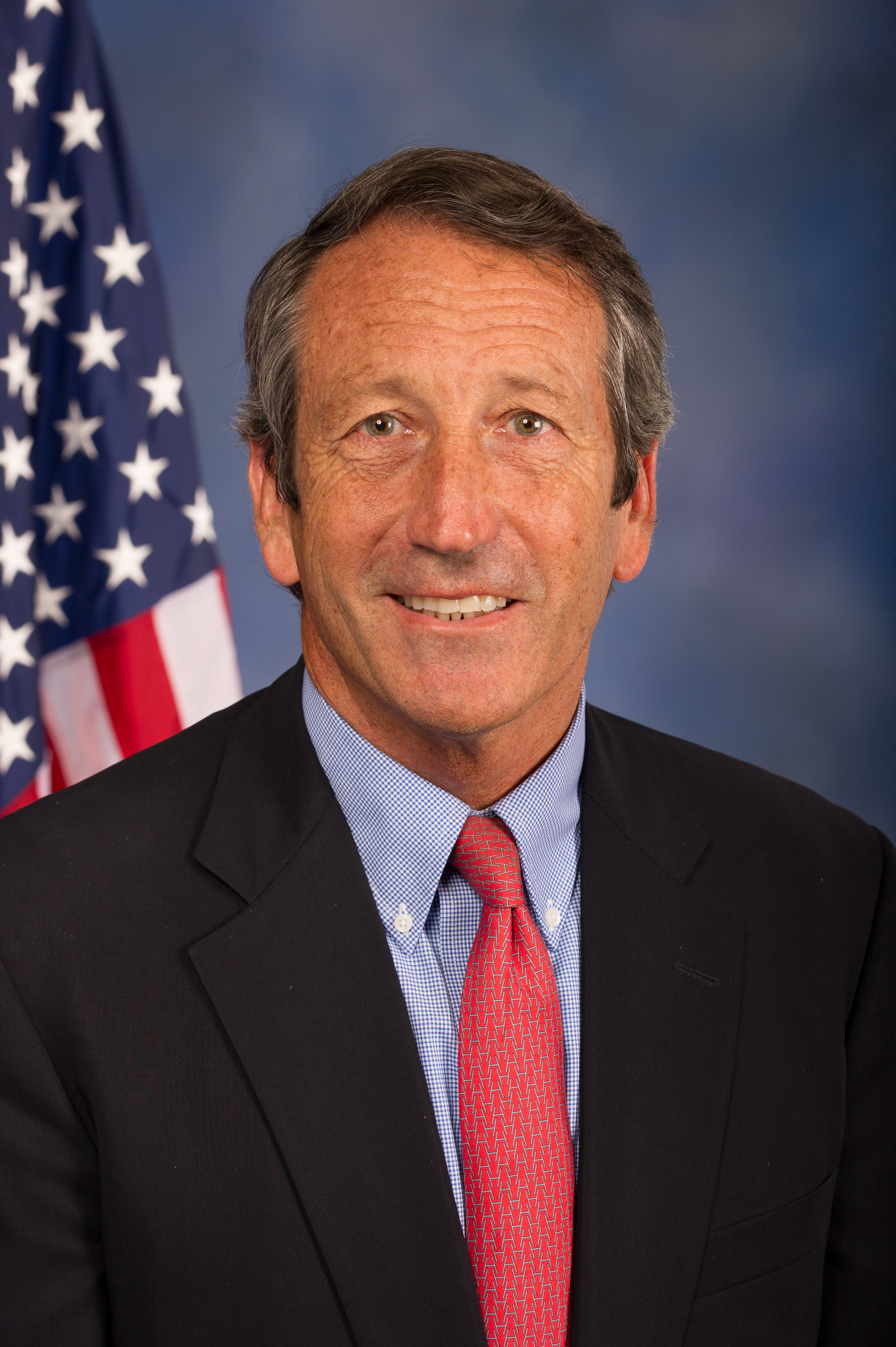 US Congressman Mark Sanford (R-SC)